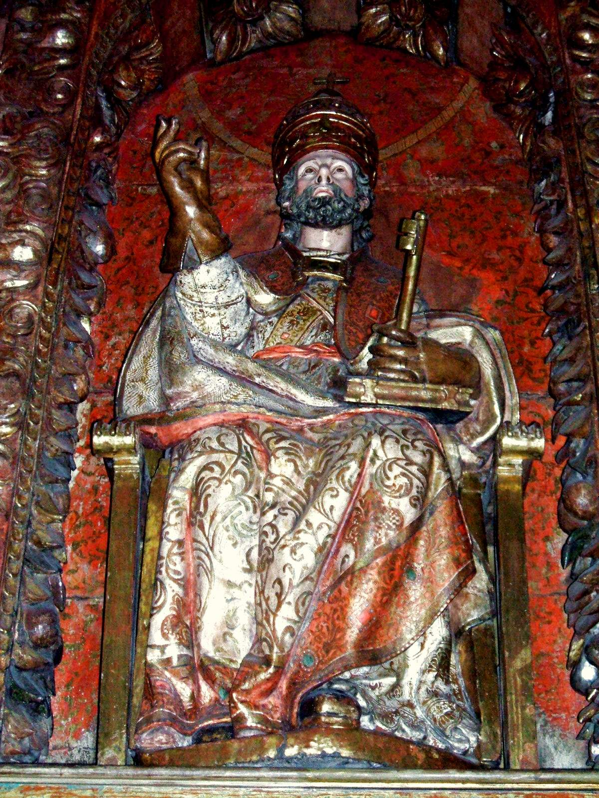 Talla de San Pedro, en el retablo homónimo de la Basílica de Santa María de la Asunción, Lequeitio (Vizcaya, Euskadi, España)